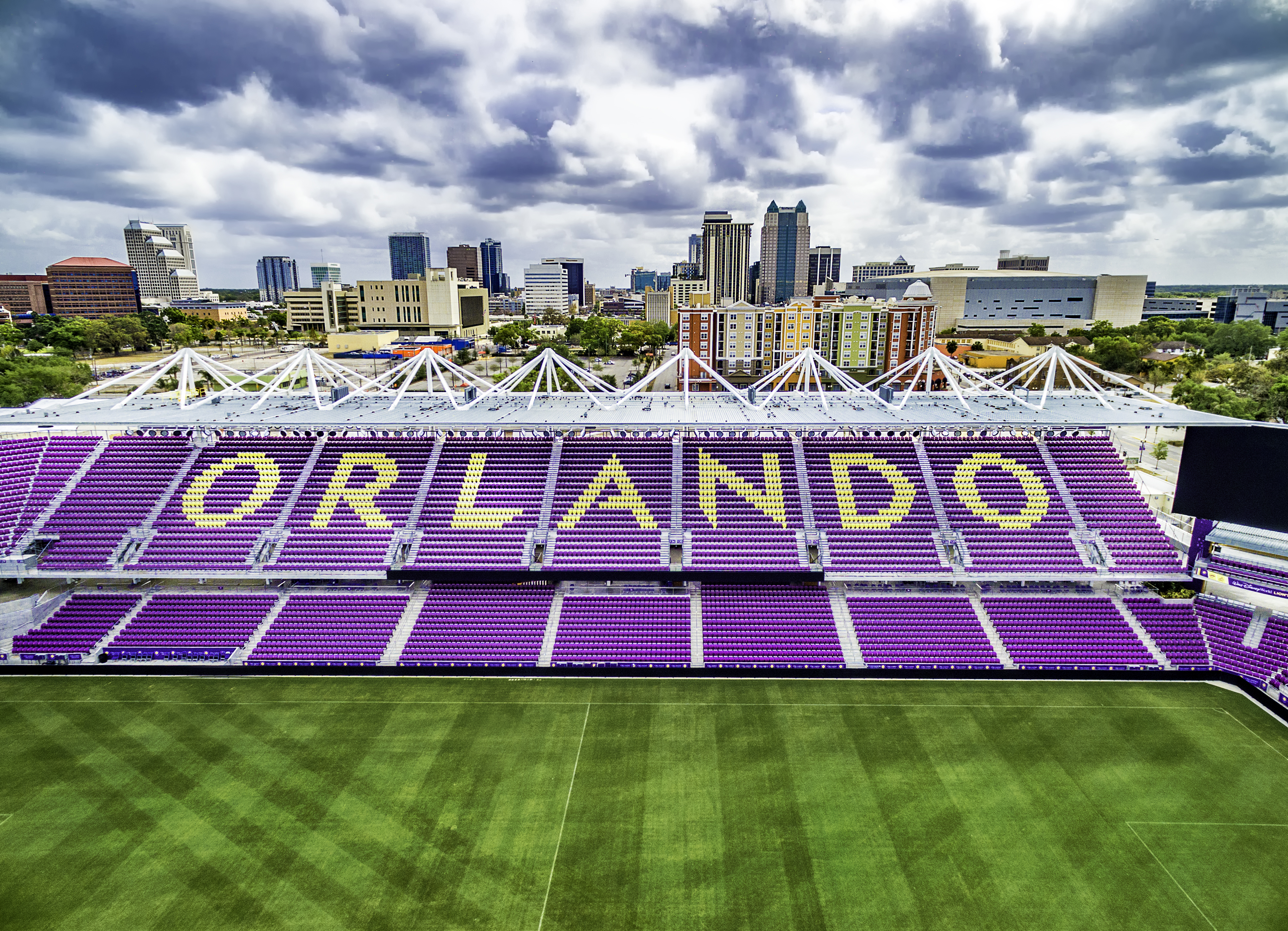 Orlando City Soccer Stadium aerial shot taken during the inaugural season of the stadium.